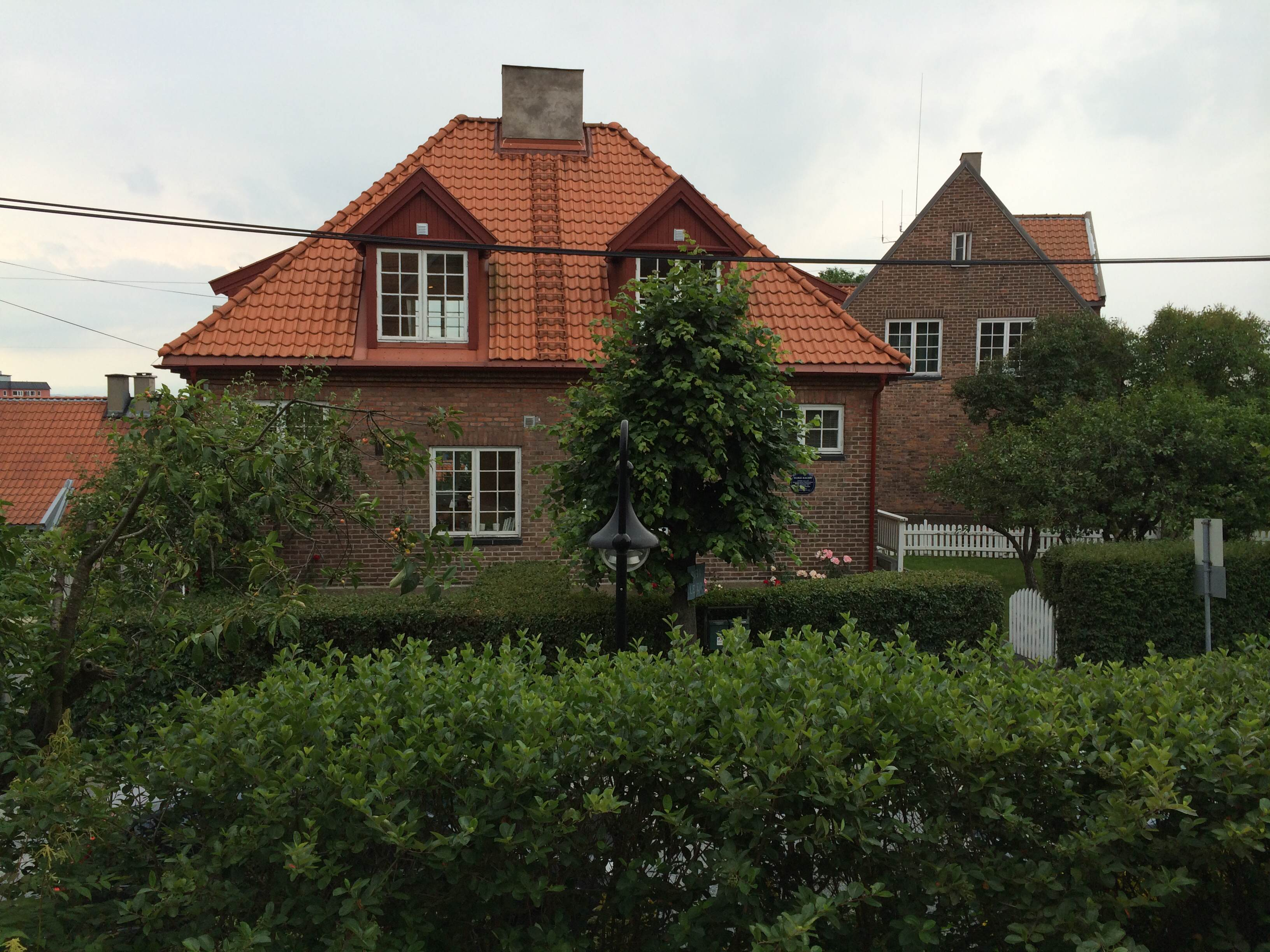 Haslehageby